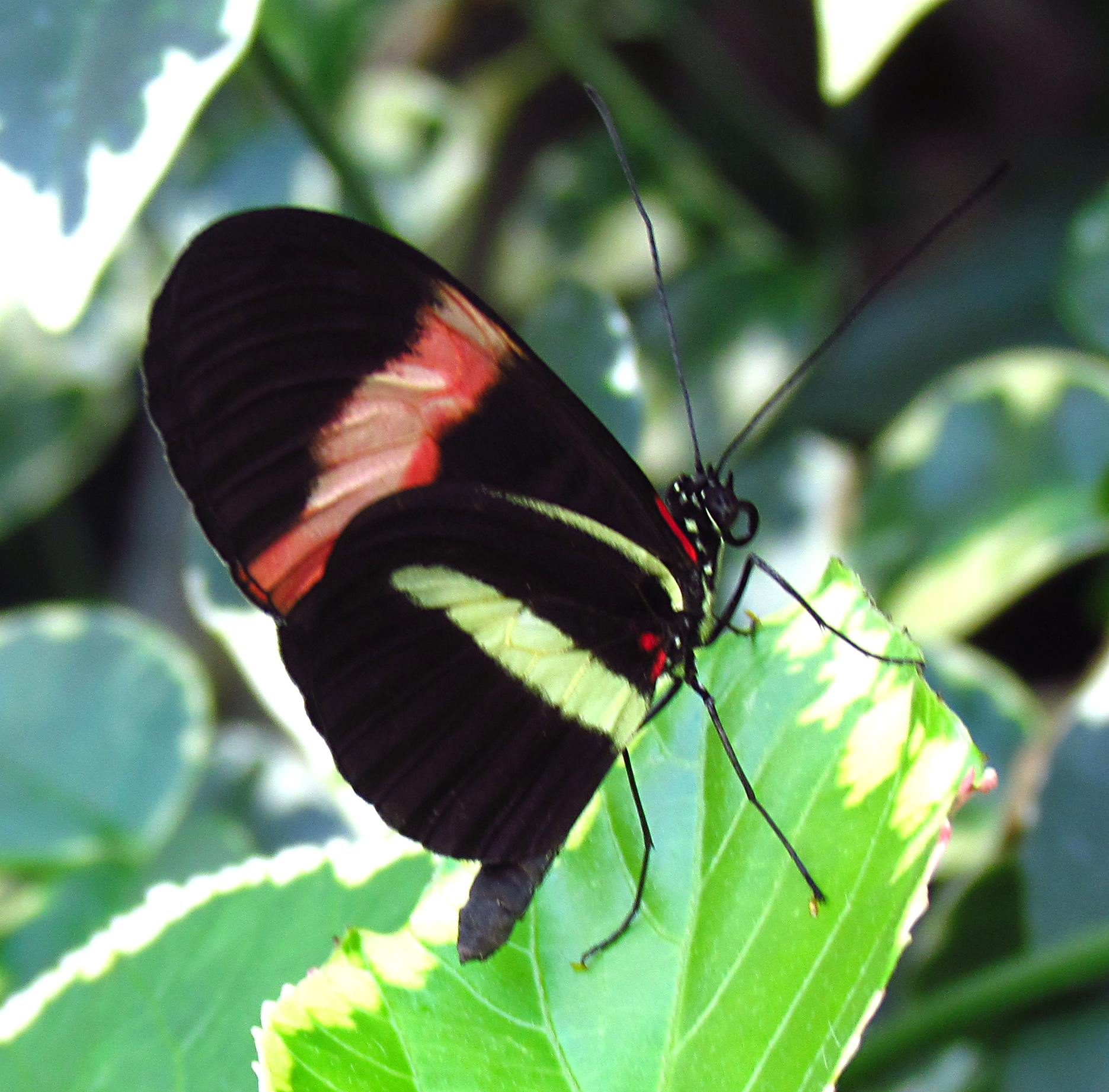 Common Postman (Heliconius melpomene), underside